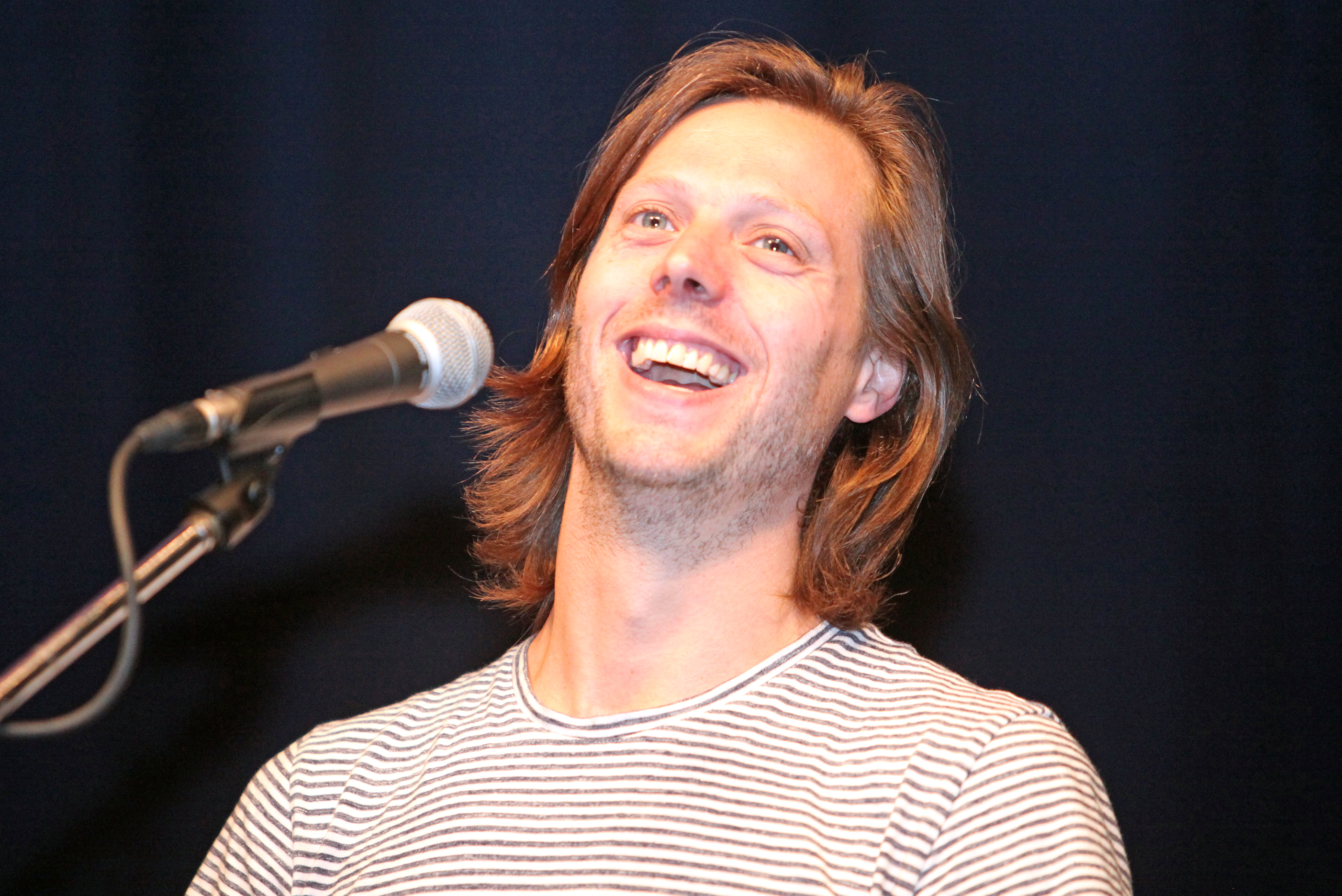 Belgian film director Felix van Groeningen at the International Film Festival Karlovy Vary on 5 July 2016.